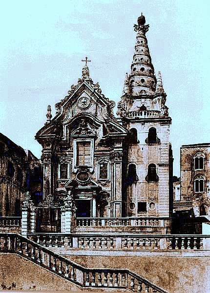 Church